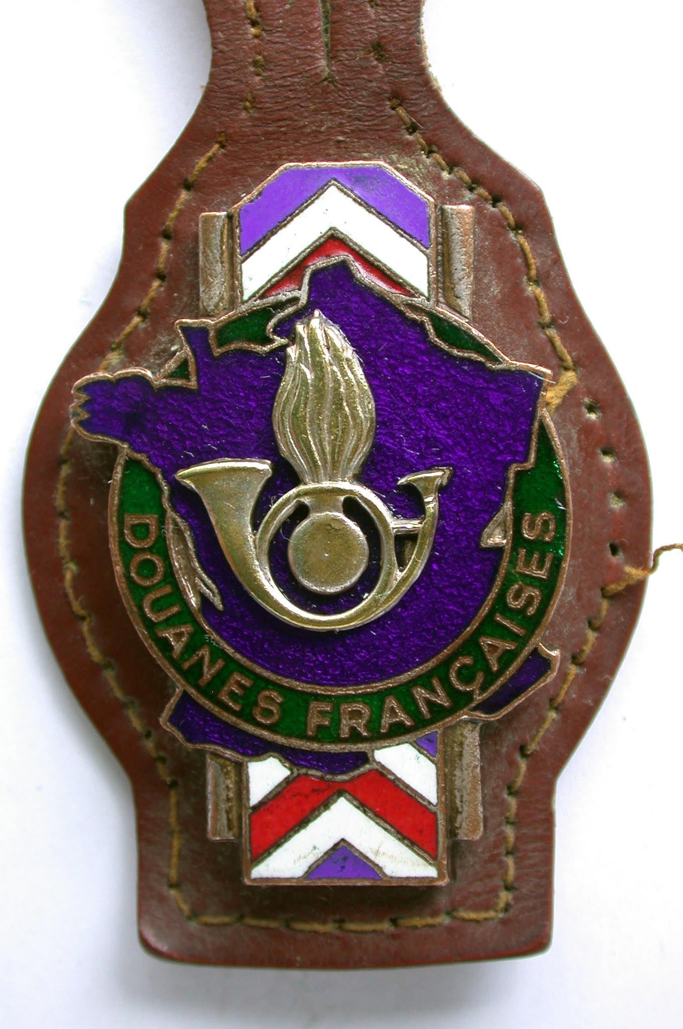 Badge of the French customs